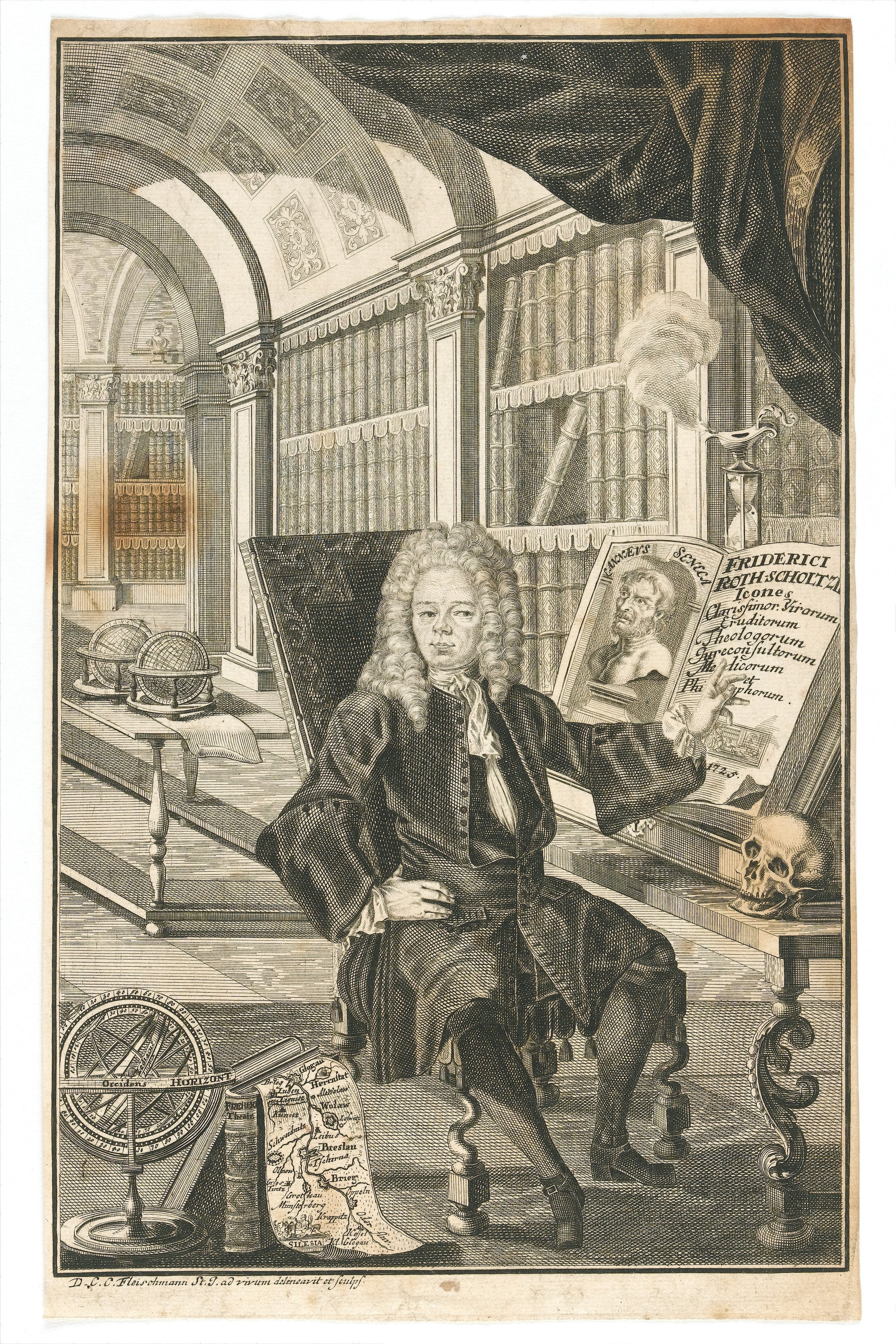 Friedrich Roth-Scholtz. Bookseller, publisher and editor at Nuremberg. Iconographic Collections Keywords: D. C. C. Fleischmann